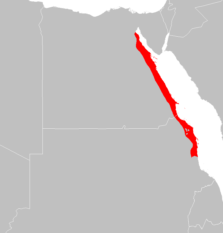 Map of the Red Sea coastal desert ecoregion — of the Deserts and xeric scrublands biome, on the Red Sea in northeastern Africa.